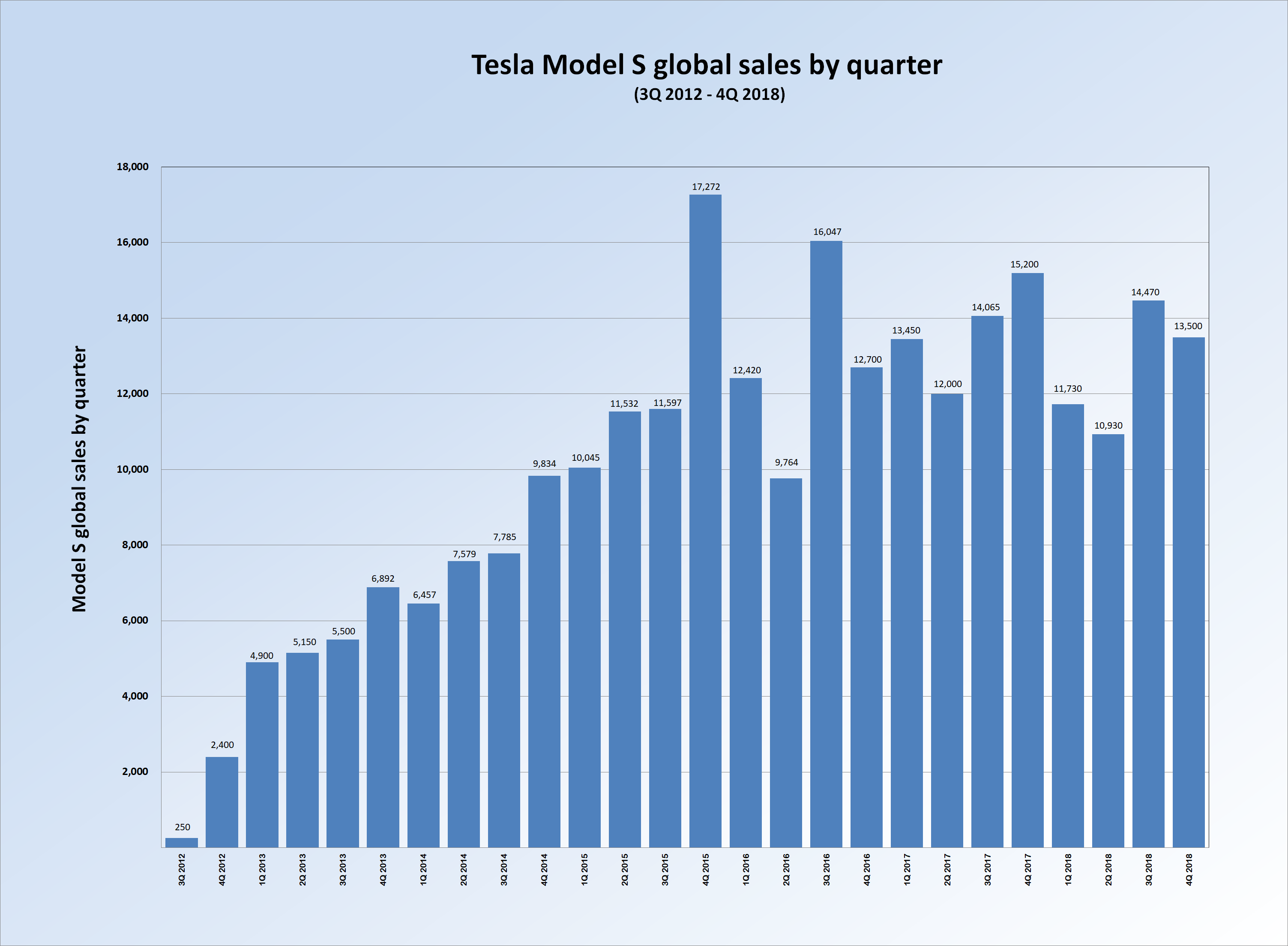 Graph showing global sales of Tesla Model S electric car by quarter since the third quarter of 2012 through the fourth quarter of 2018. Sources: Tesla Motors quaterly shareholders letters and press releases: 2016, 2Q 2016 Update, 3Q 2016, 4Q 2016 figures, 1Q 2017, 2Q 2017, 3Q 2017 sales, preliminary 4Q 2017, 1Q 2018, 2Q 2018, preliminary 3Q 2018, and preliminary 4Q 2018.